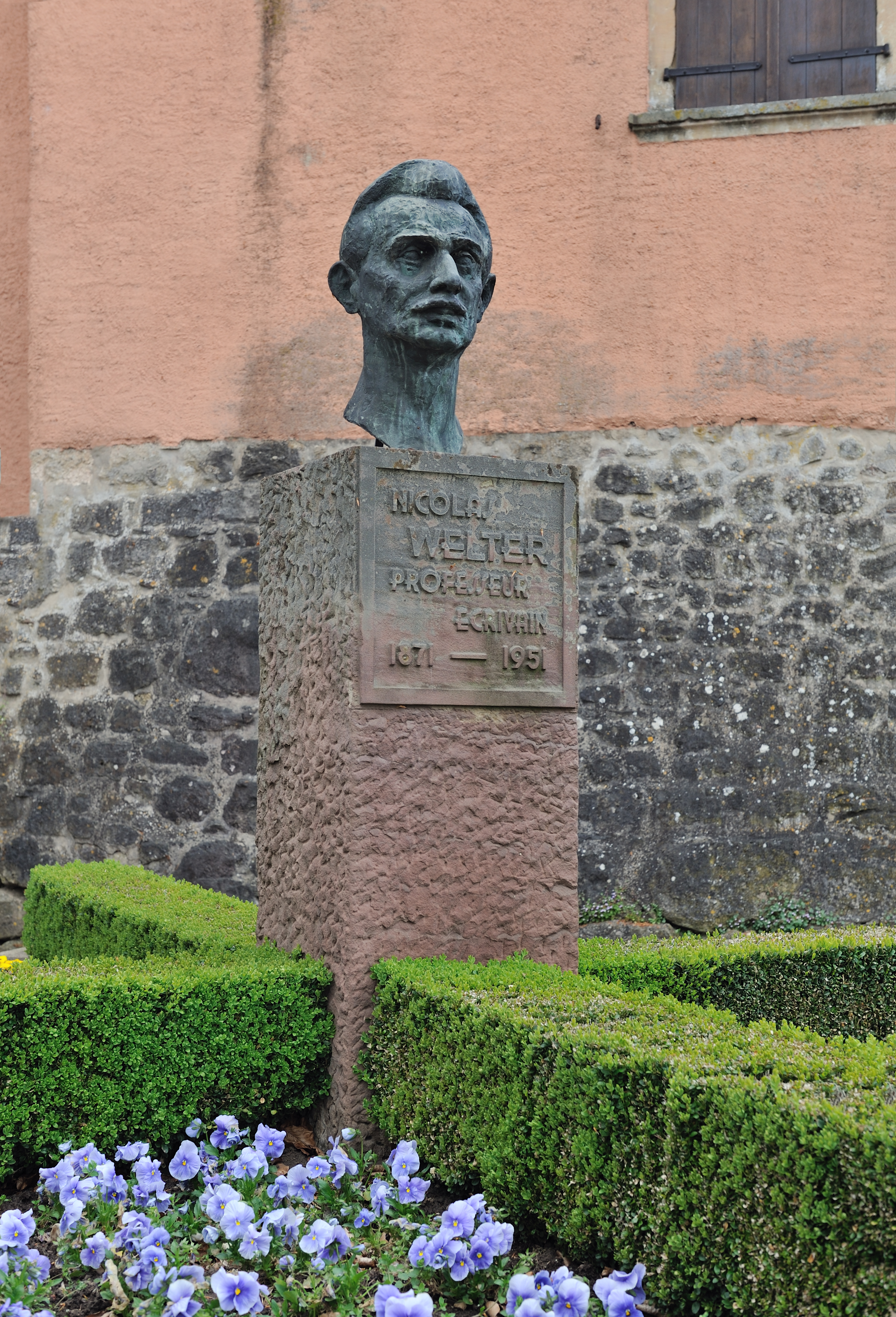 Nicolas Welter monument in Mersch.